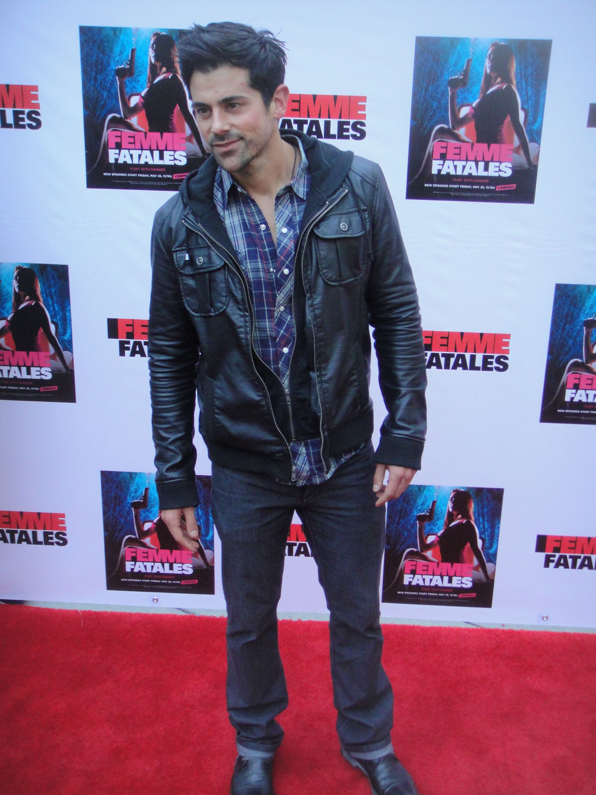 Femme Fatales Red Carpet - Adam Huss